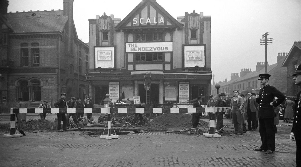 Police guard next to a bomb crater in front of the Scala Cinema on Wilmslow Road, Withington, Manchester, UK